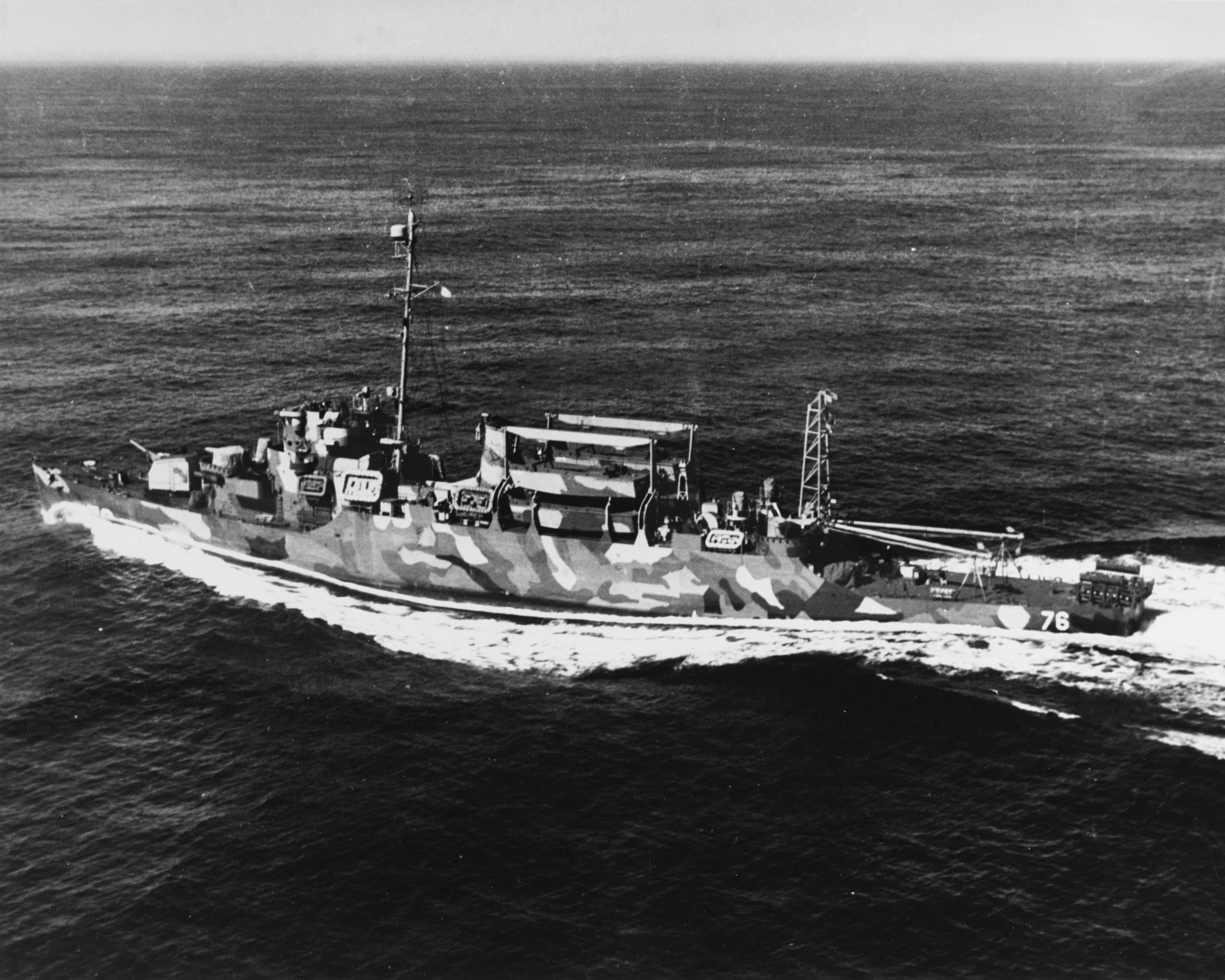 The U.S. Navy high-speed transport USS Schmitt (APD-76) underway in the Atlantic Ocean on 9 April 1945, following her conversion from a destroyer escort to a high-speed transport. She is painted in a Camouflage Measure 31, Design 20L.